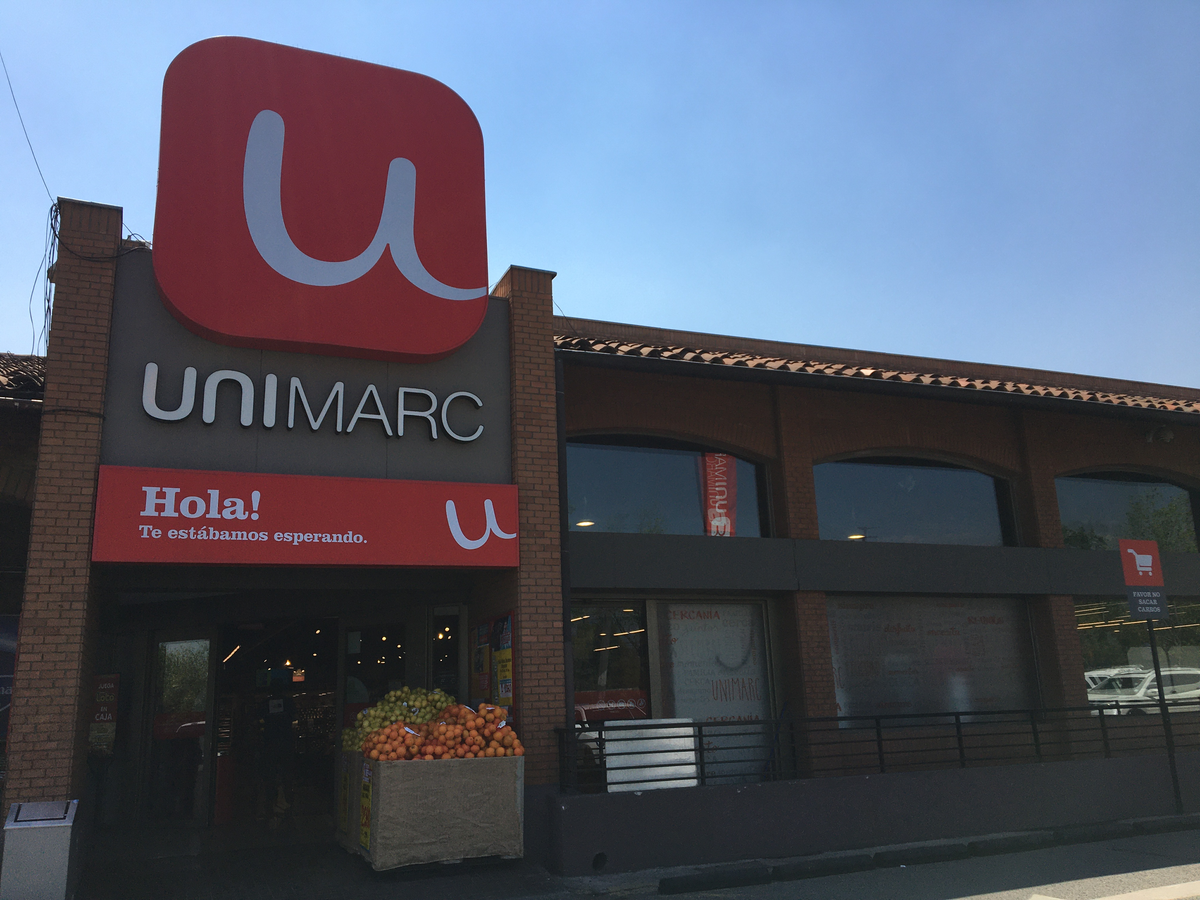 Unimarc Lo Curro